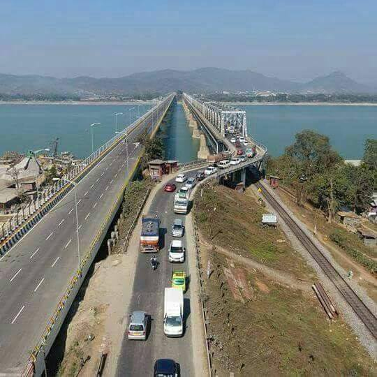 Bridge